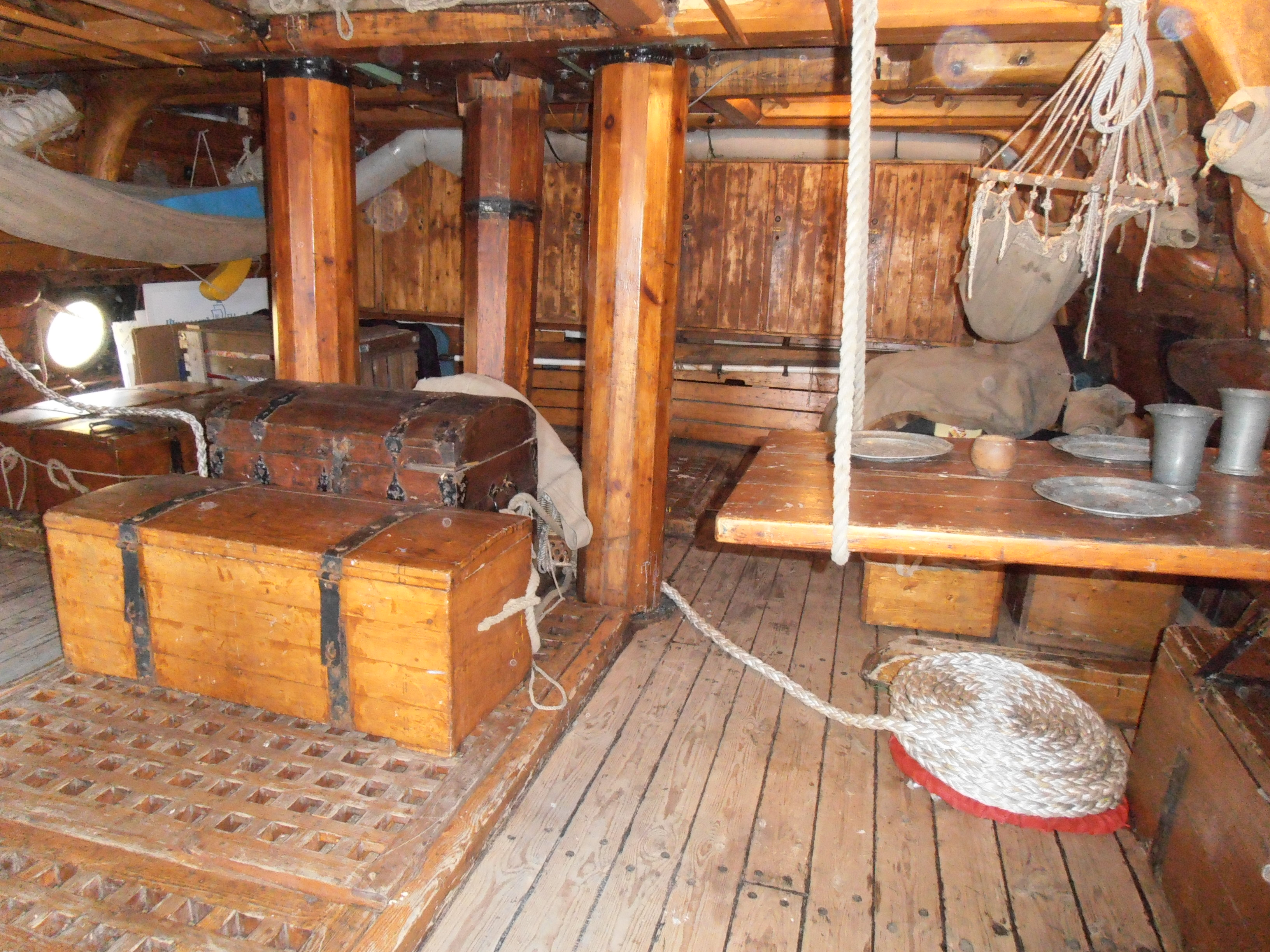 Shtandart' Jewel Tallinn 28 May 2012